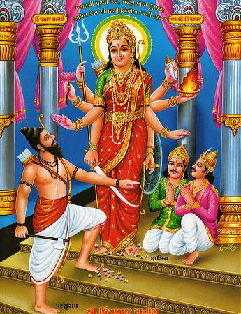 Hinglaj